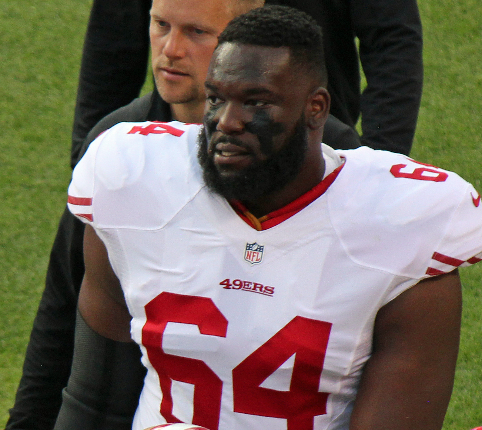 Justin Renfrow, a player on the National Football League.